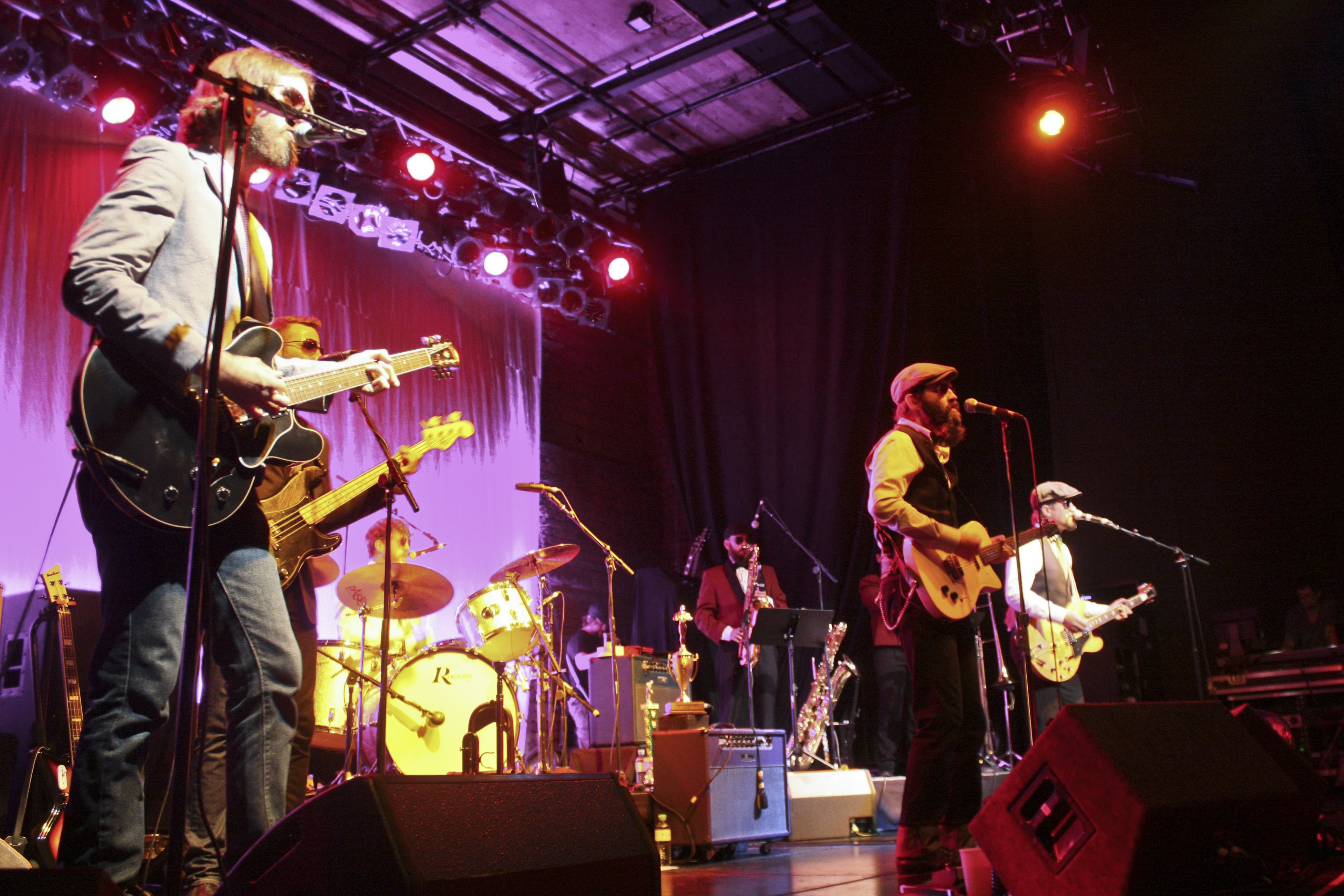 Eels on stage at the republic Salzburg 2011